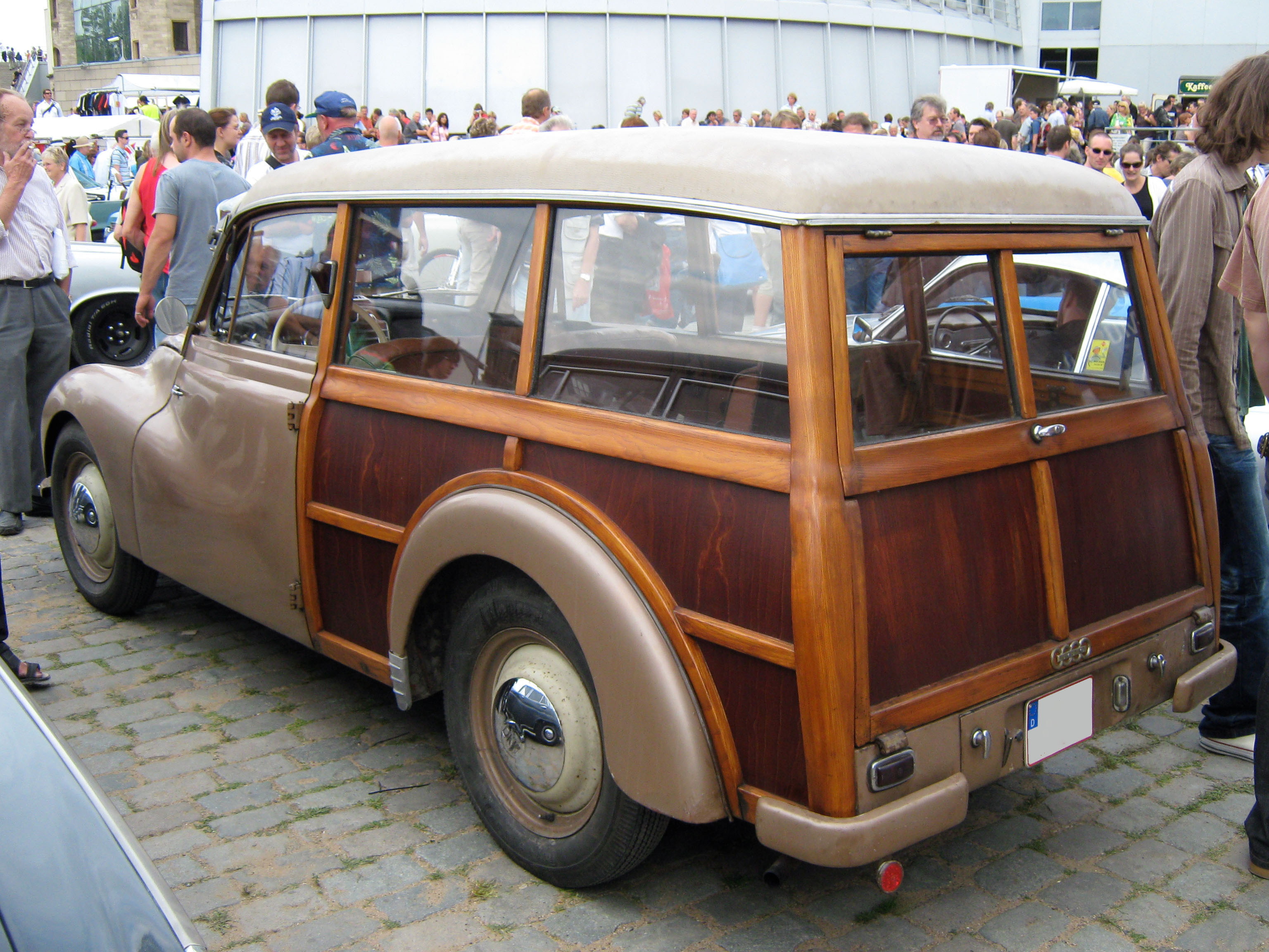 DKW F89 Universal Meisterklasse rear view 1951